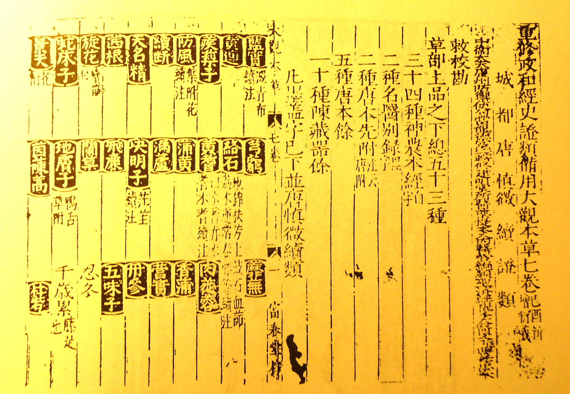 Daguan bencao中文（中国大陆）: 唐慎微大观本草